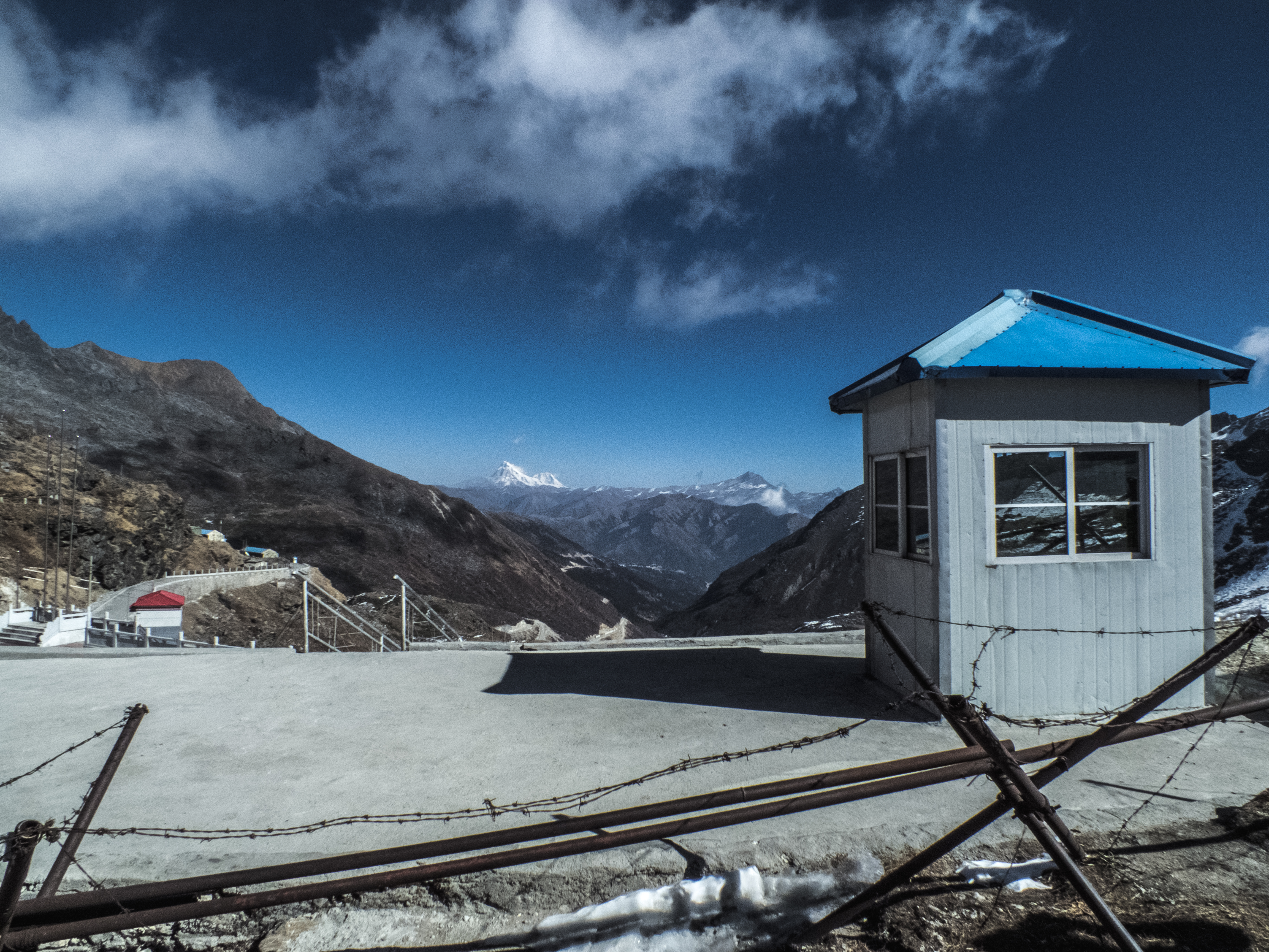 Distant mountain in Bhutan, Chinese check post and international border fence as seen from the Indian side at Nathu La.